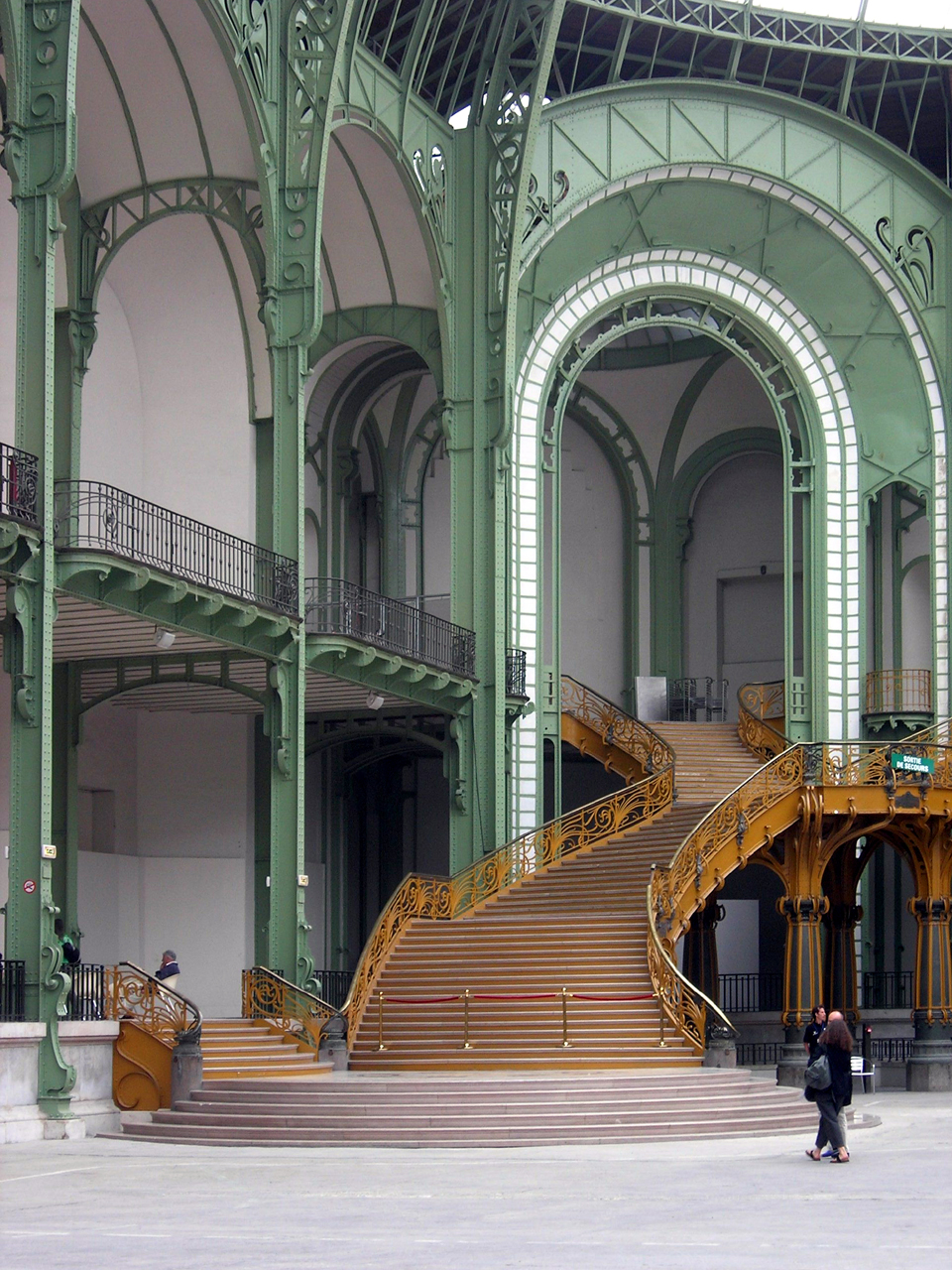 Grand Palais a Paris